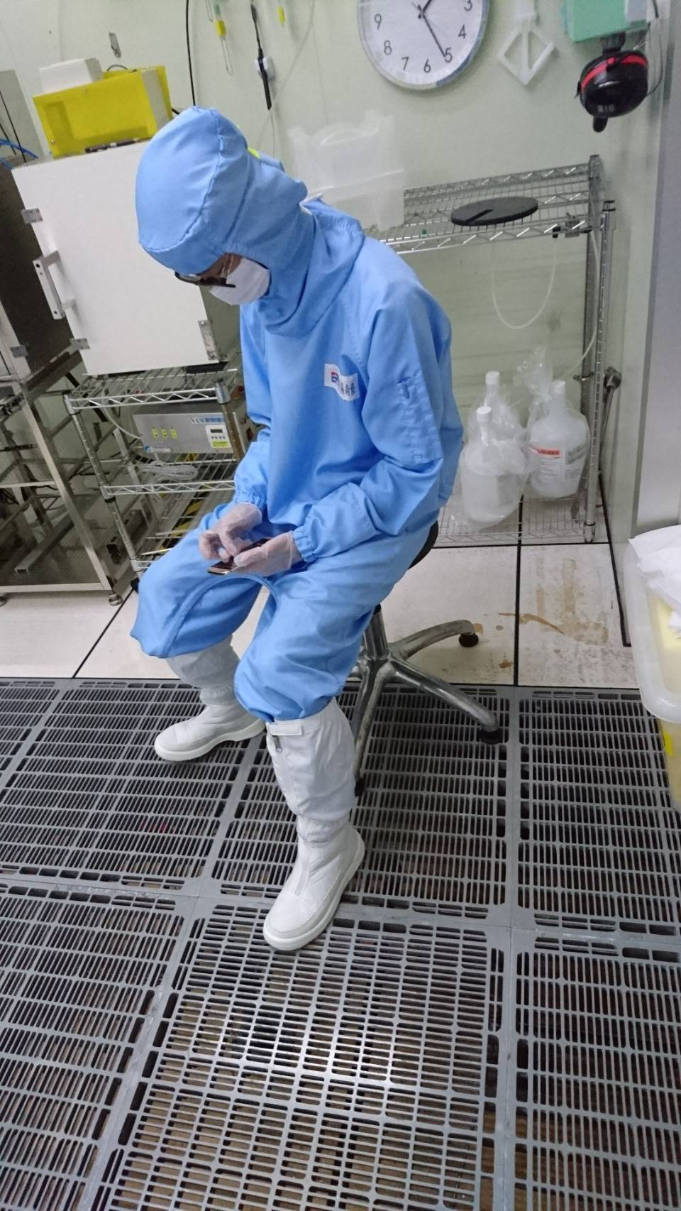 The man wearing a cleanroom suit.